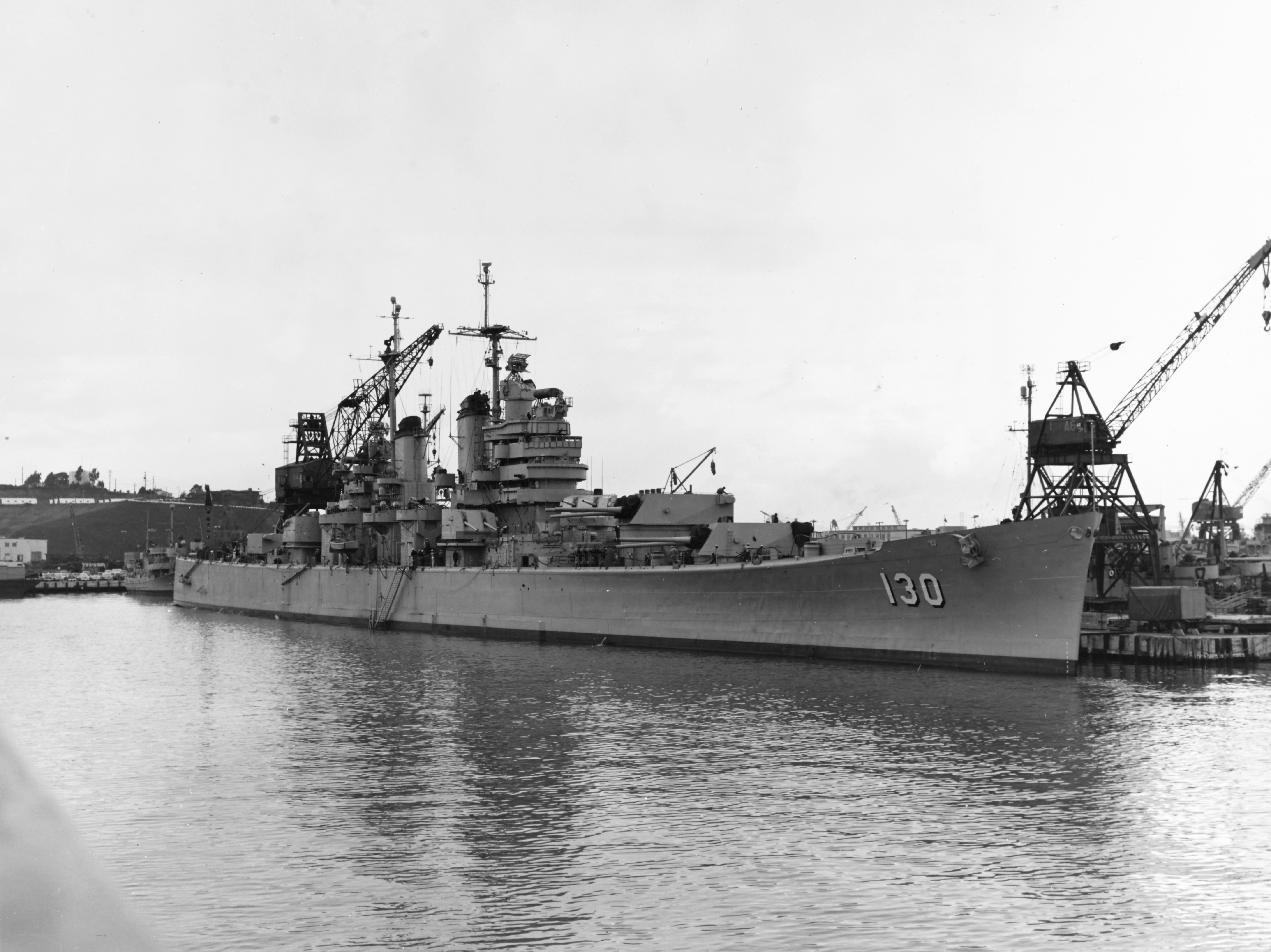 The U.S. Navy heavy cruiser USS Bremerton (CA-130) at Hunters Point Naval Shipyard, San Francisco, California (USA), on 21 November 1951. She was recommissioned for Korean War service on 23 November after having been in reserve since April 1948.